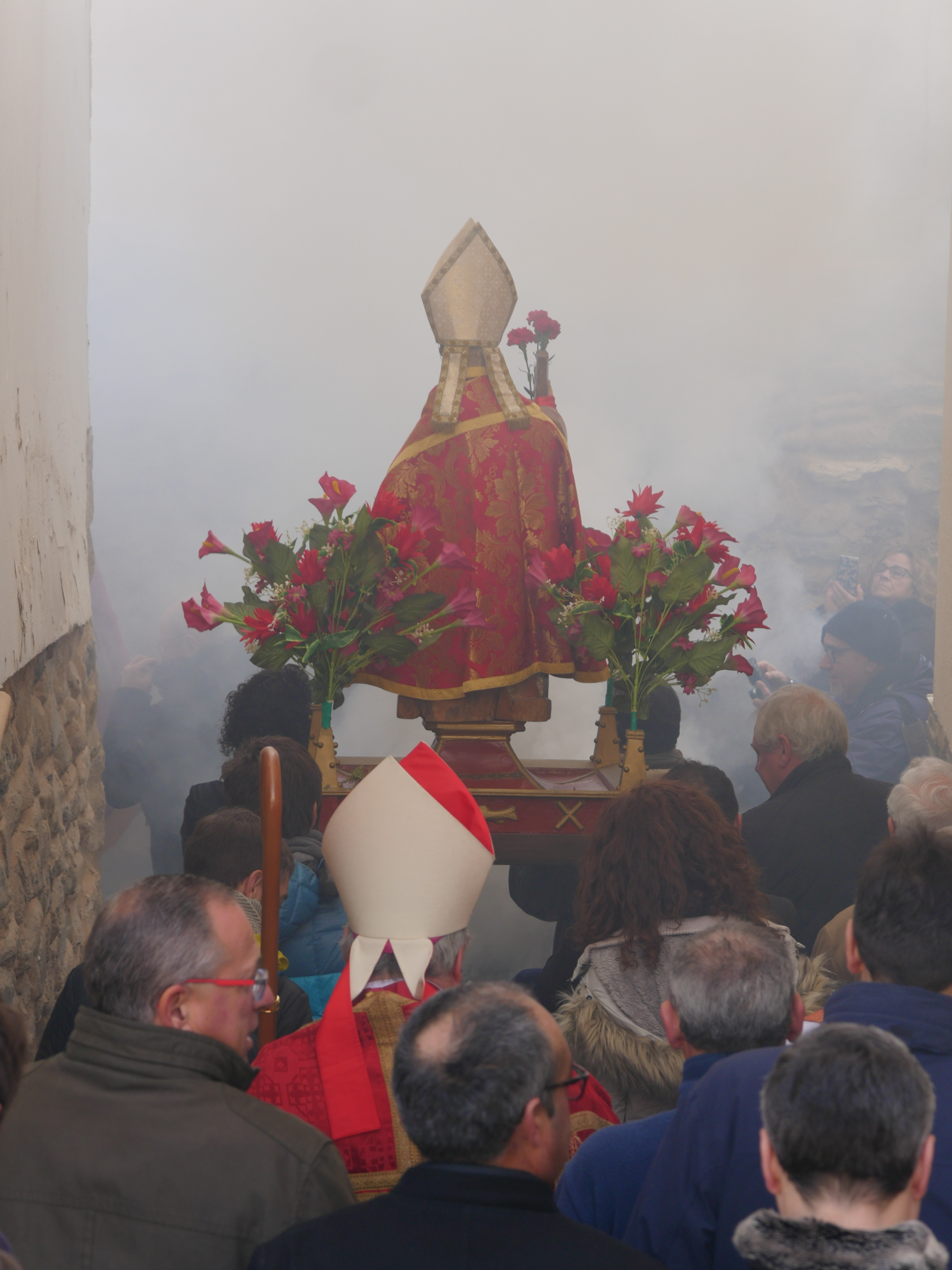 Paso with the sculpture of Saint Andrew going towards the smoke during the Procession of the smoke (Procesion del humo) 2017 in Arnedillo, La Rioja, Spain.